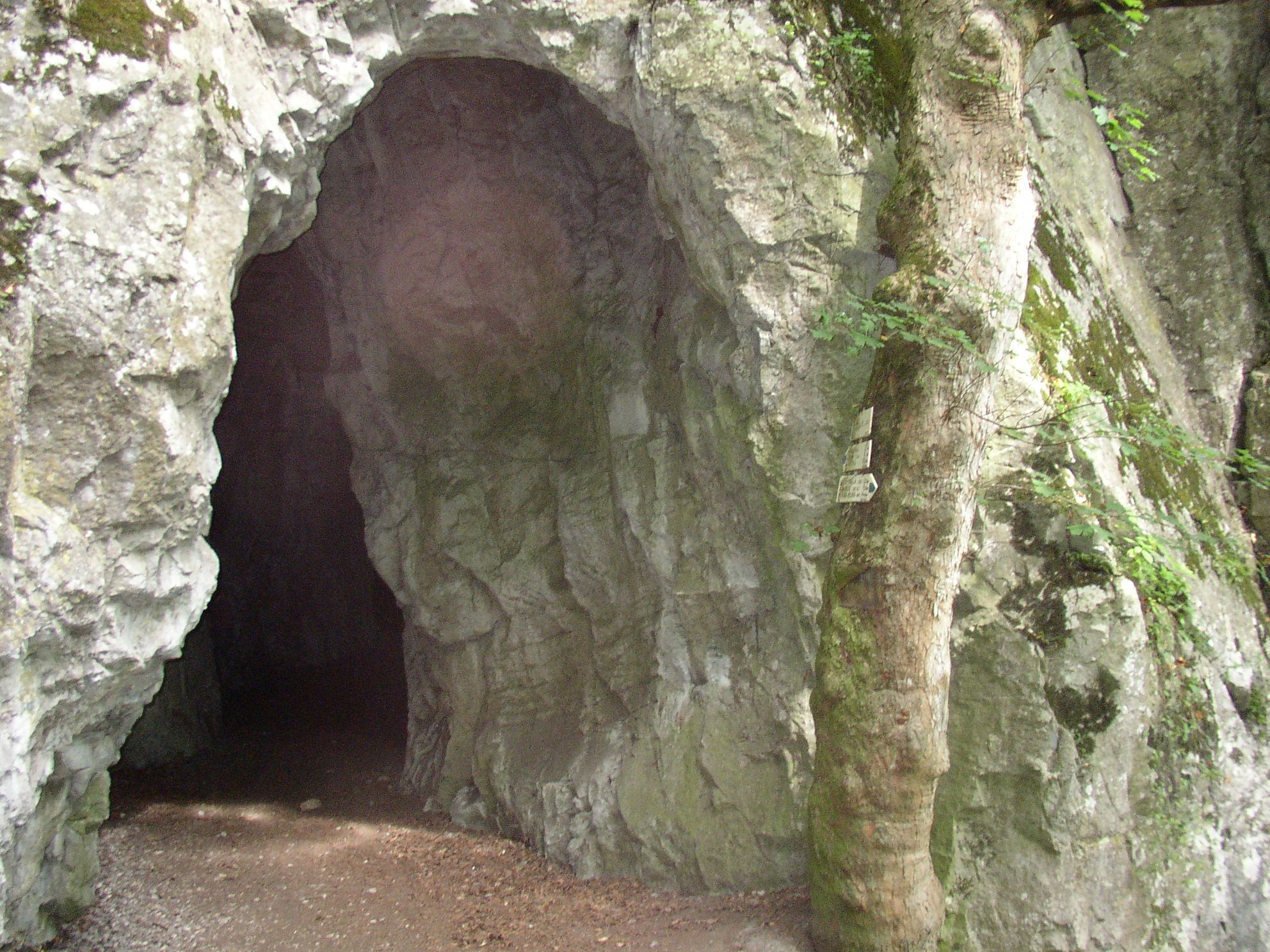 Entrance of the Kostelík Cave in Moravian Karst, Czech Republic.